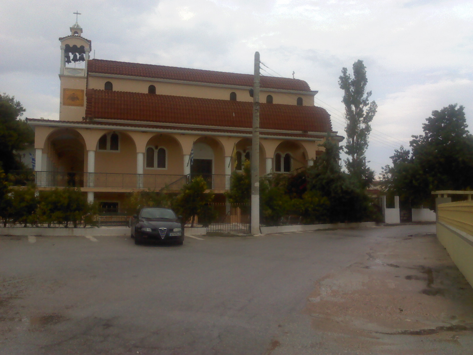 Church Ipapanti Artemida